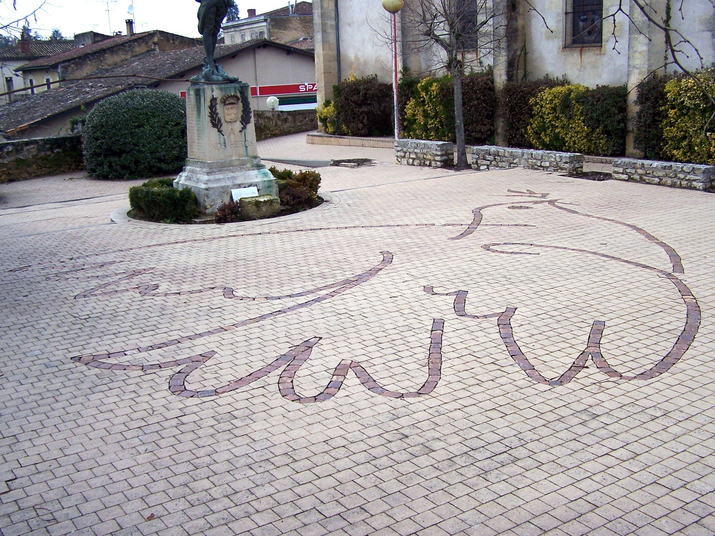 Drawing of the Dove of peace (according to Picasso) in front of the war memorial of Saint-Pierre-d'Aurillac (Gironde, France)